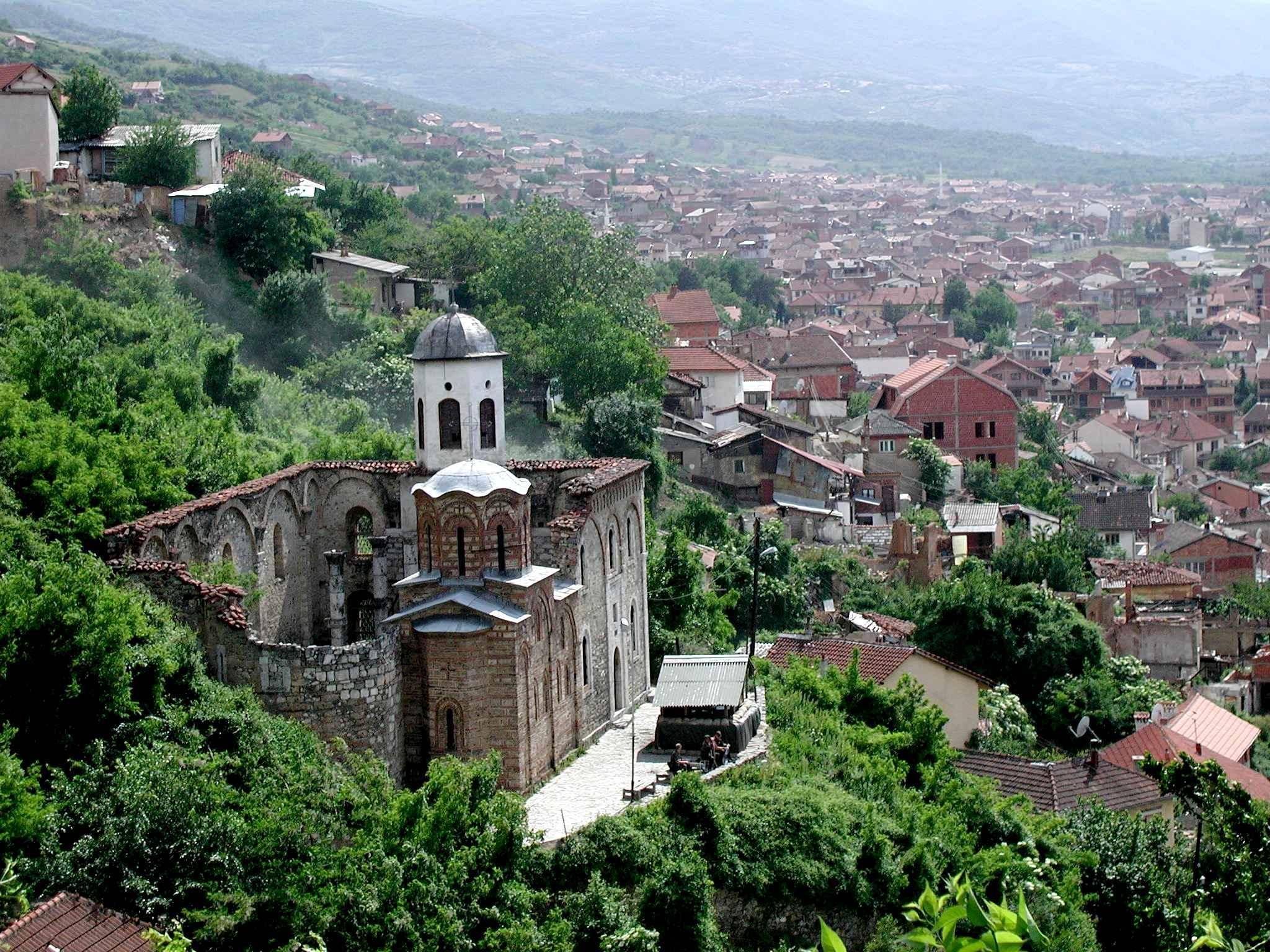 Remains of serbian Orthodox Church of Holy Salvation from XIV century, destroyed in march 2004.